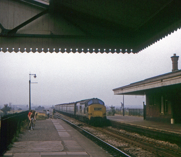 A Class 37 with a passenger train at Filton Junction station, 1972. his was a very unusual sight at this time and was perhaps a substitution for a failure.